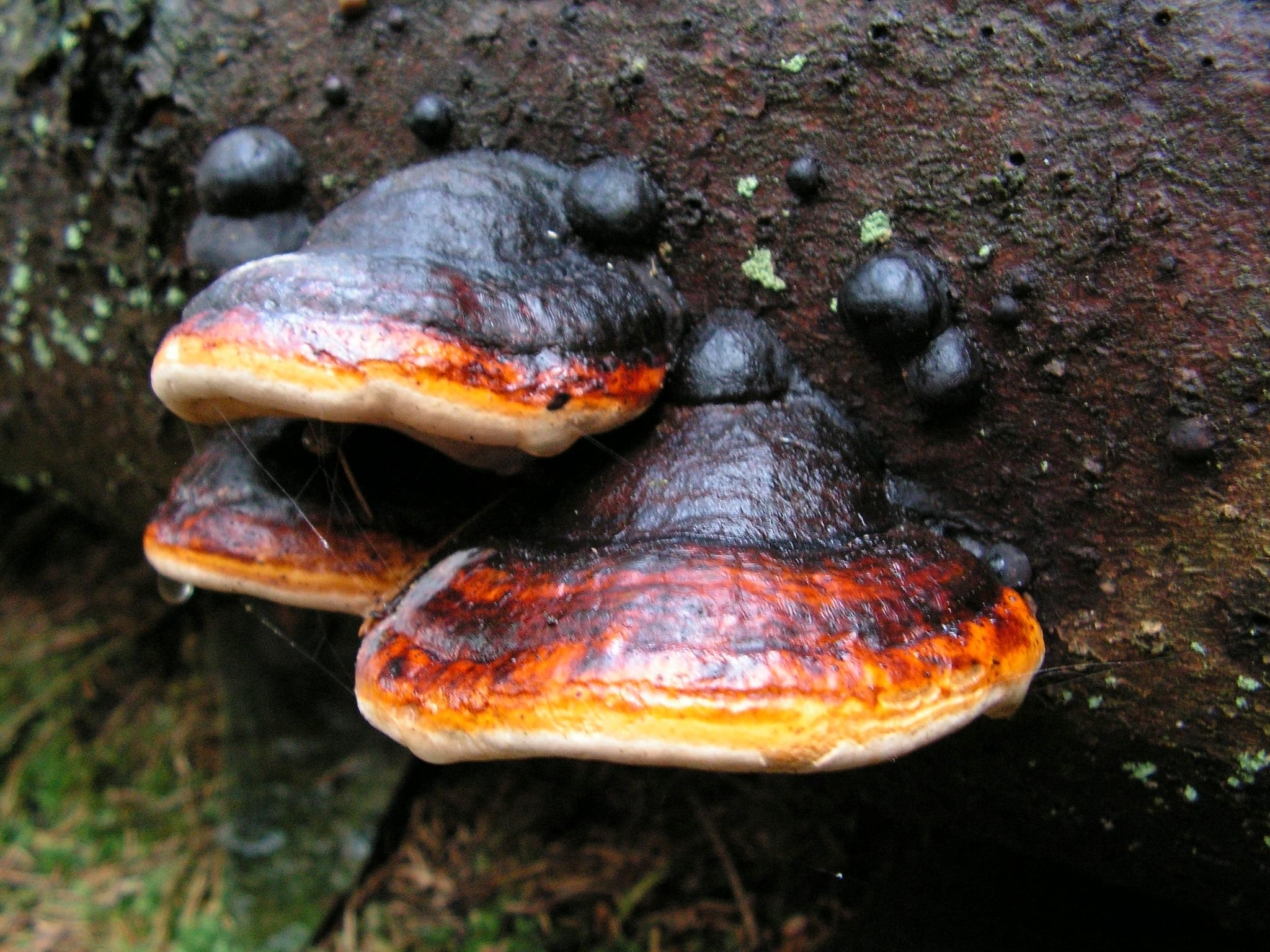 Fomitopsis pinicola, growing on a dead pine log in Luxembourg. Taken by me, April 2006 See Fomitopsis_pinicola_2.jpg for underside with pores.